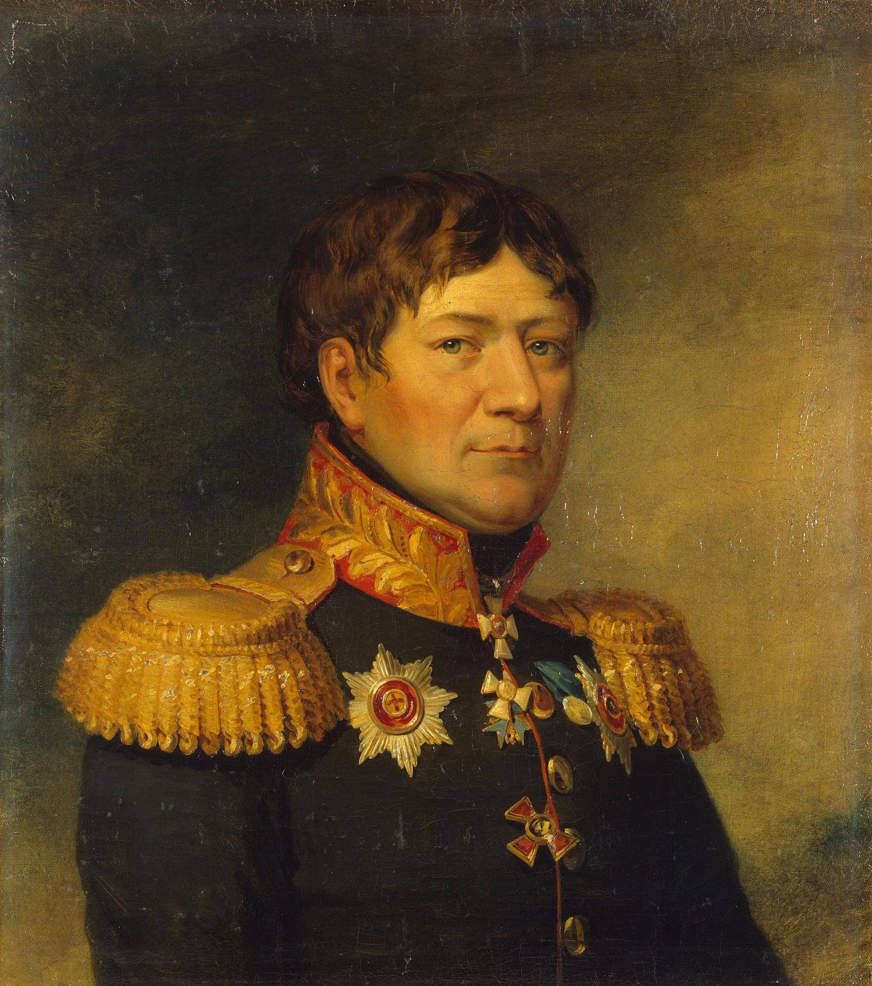 Egor Maximovich Pillar (19.03.1767 – 08.11.1830) russian general